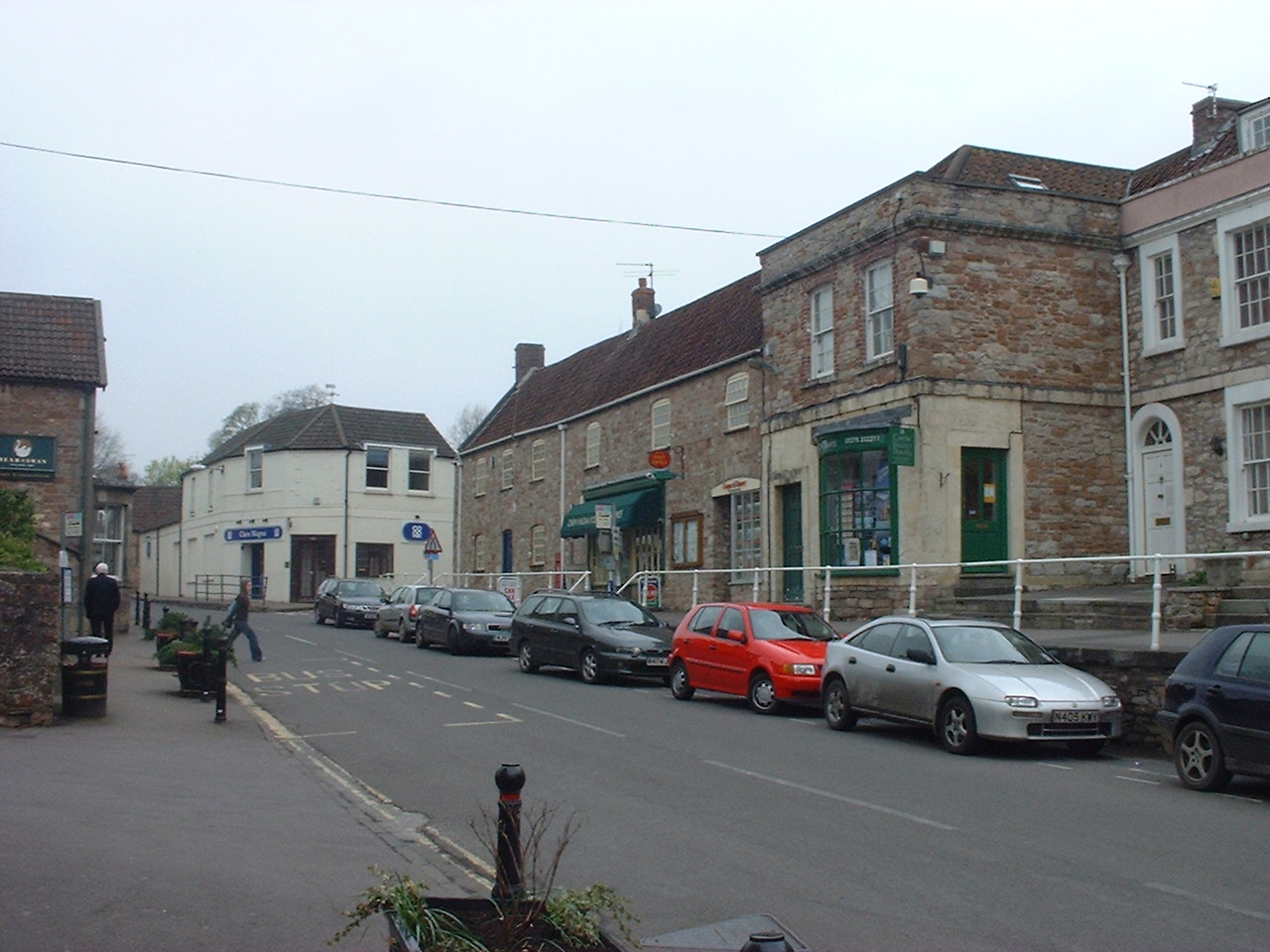 The main street in Chew Magna. Taken by Rod Ward 24th April 2006